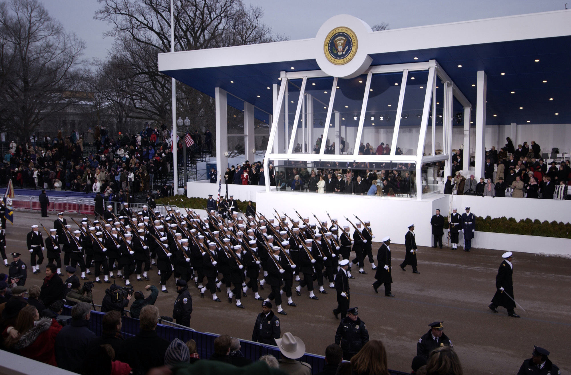 Washington, D.C. (Jan. 20, 2005) - The U.S. Navy Honor Guard marches past President George W. Bush during the 2005 Presidential Inaugural Parade held in Washington D.C. President Bush took the oath of office earlier in the day, beginning his 2nd term as the nation's 43rd president. More than 5,000 men and women in uniform provide military ceremonial support to the presidential inauguration, a tradition dating back to George Washington's 1789 Presidential Inauguration. U.S. Air Force photo by Tech. Sgt. Tracy DeMarco (RELEASED)